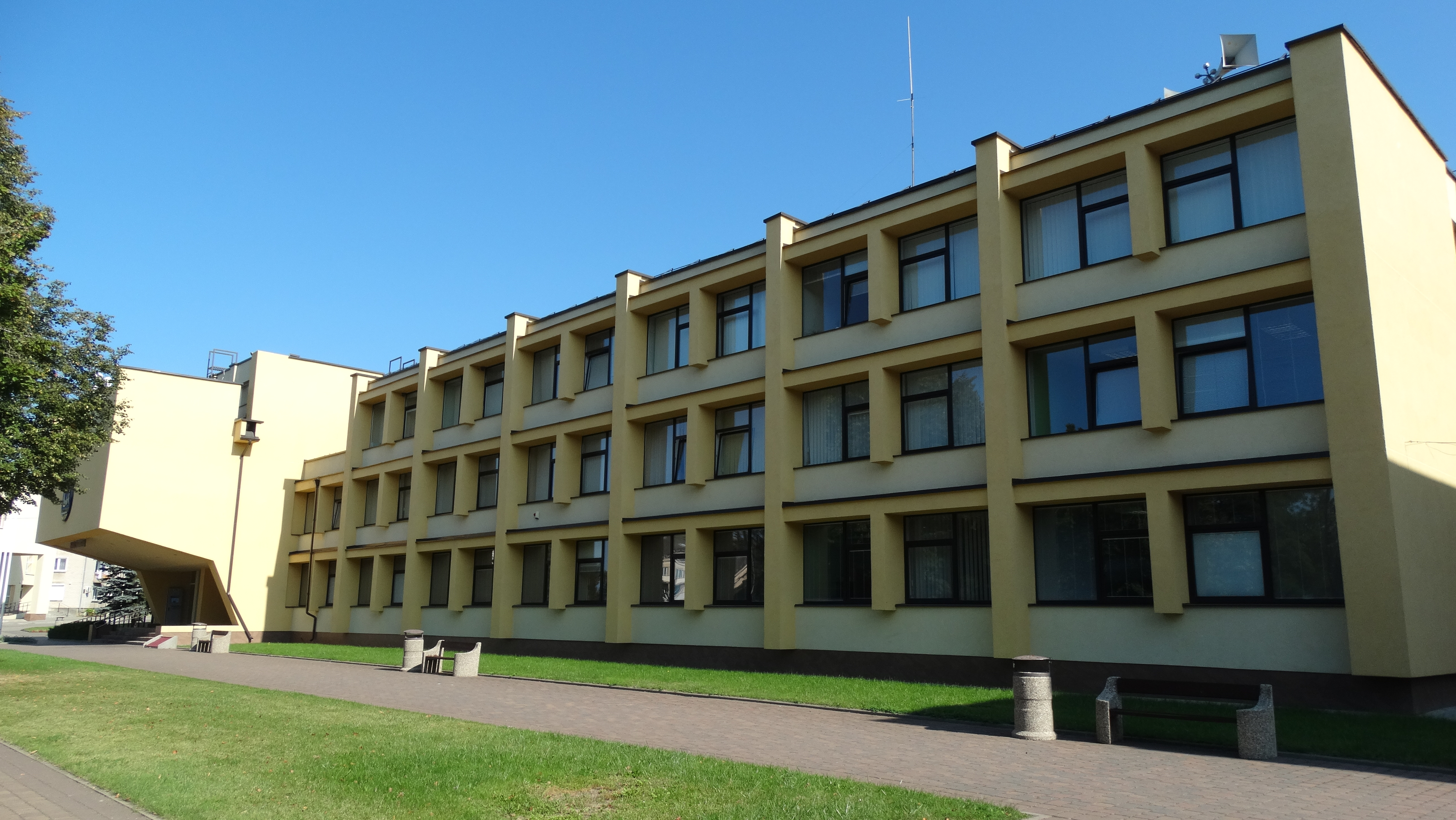 Municipality, Zarasai, Lithuania